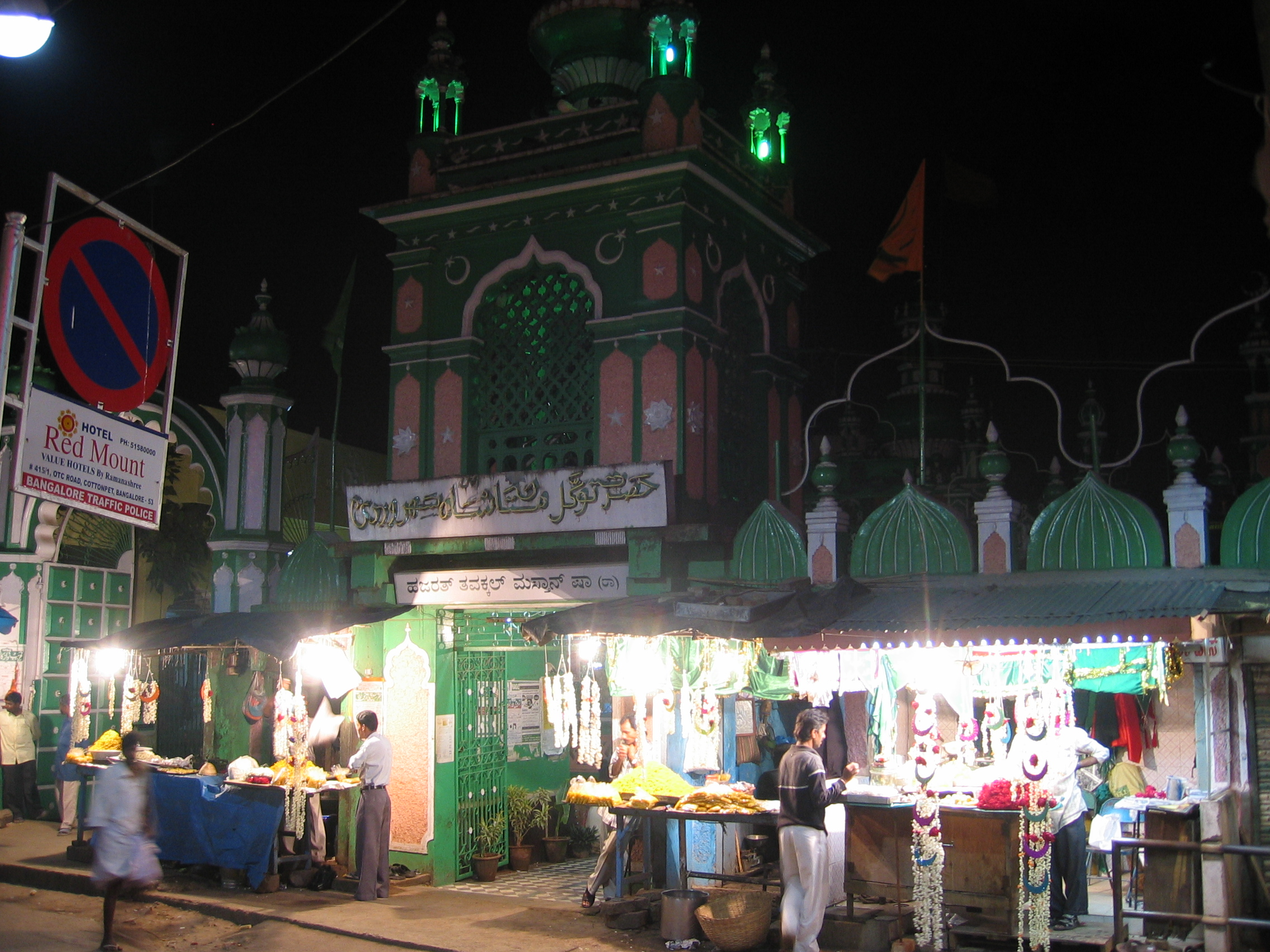 Hazrath Tawakkal Mosque or Dargha decorated during the Karaga, a Hindu festival.